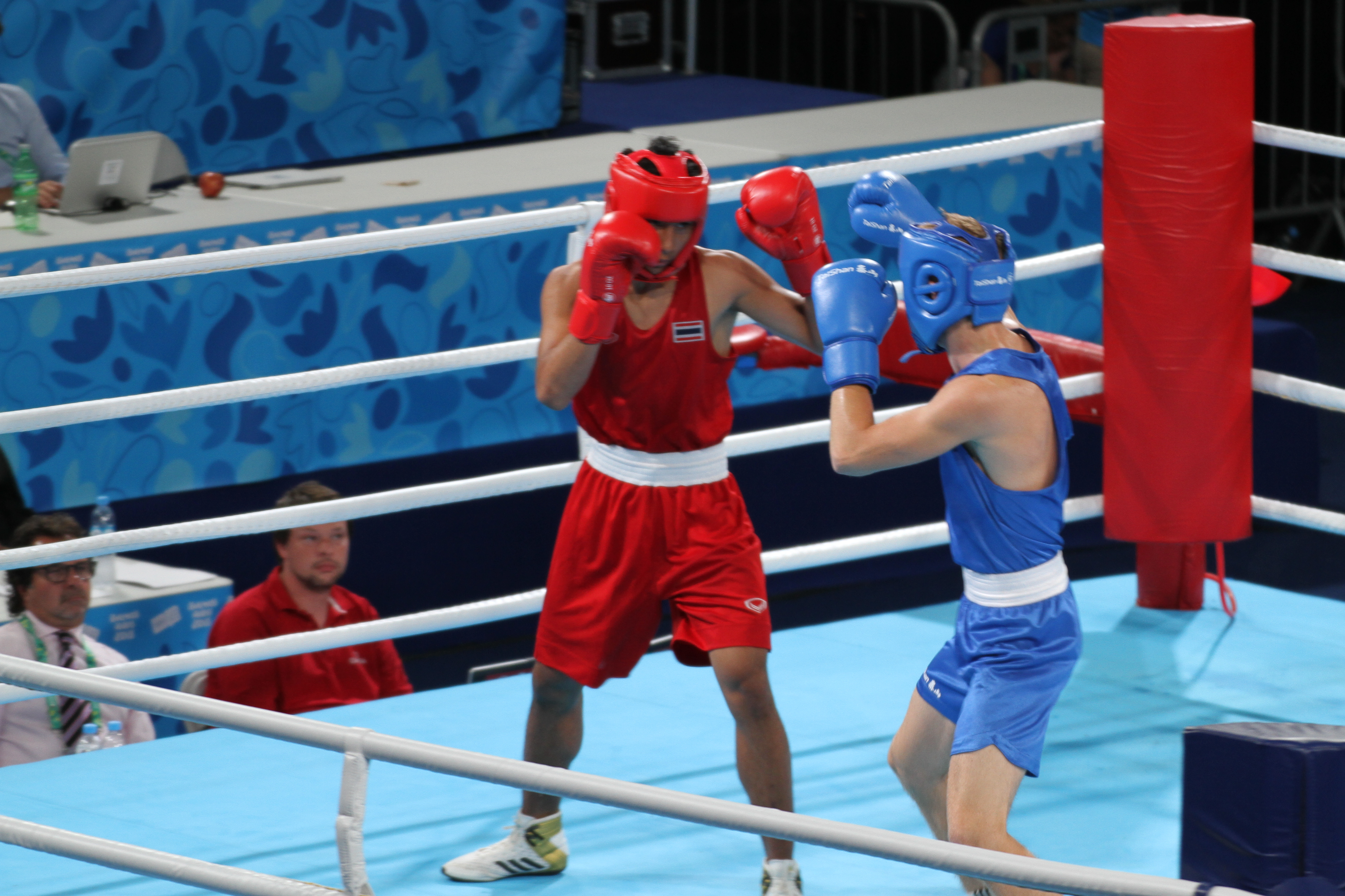 Boxing at the 2018 Summer Youth Olympics. Men's Light (60kg) Bout for Gold Medal.